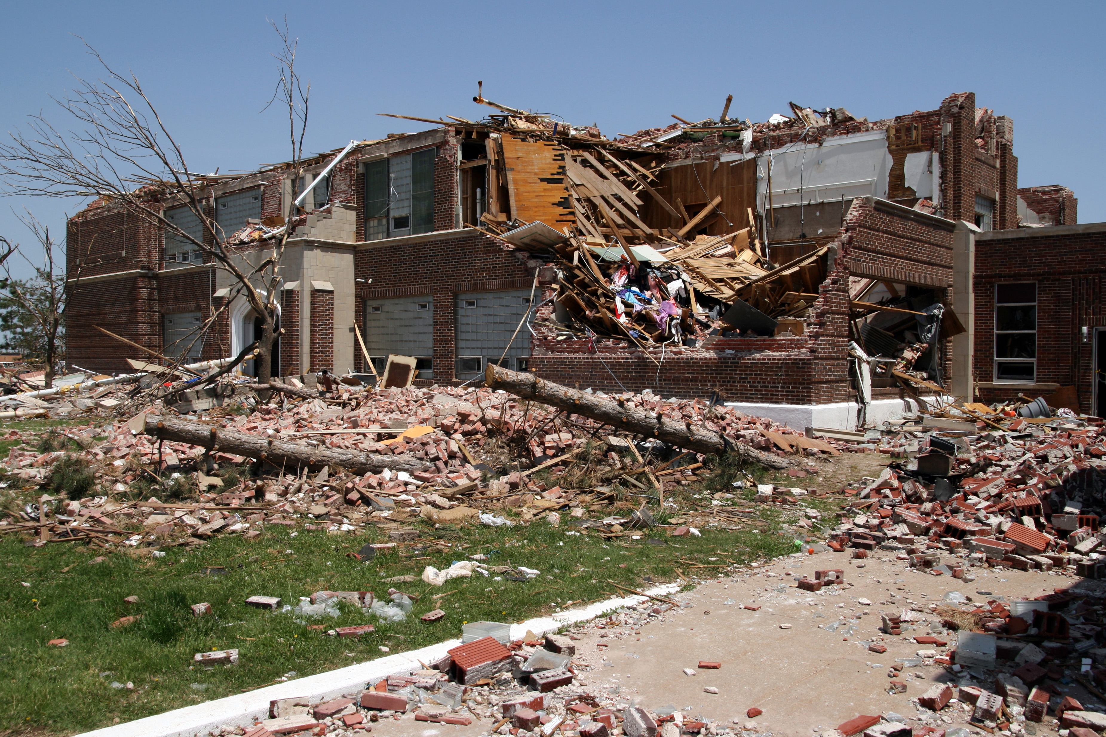 Greensburg, KS May 16, 2007 - Heavily damaged Greensburg High School will have to be torn down. An F5 tornado struck the town on May 4. . Photo by Greg Henshall / FEMA